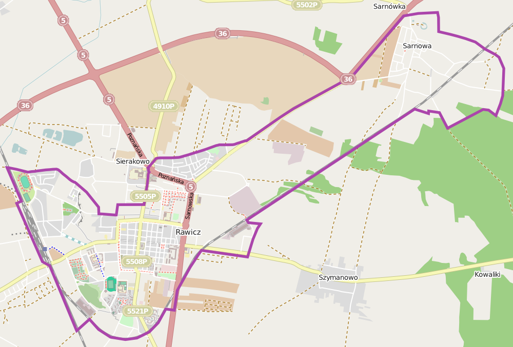 Location map of Rawicz, Poland This map of Rawicz was created from OpenStreetMap project data, collected by the community. This map may be incomplete, and may contain errors. Don't rely solely on it for navigation. Border coordinates51.637516.8312←↕→16.926751.5970